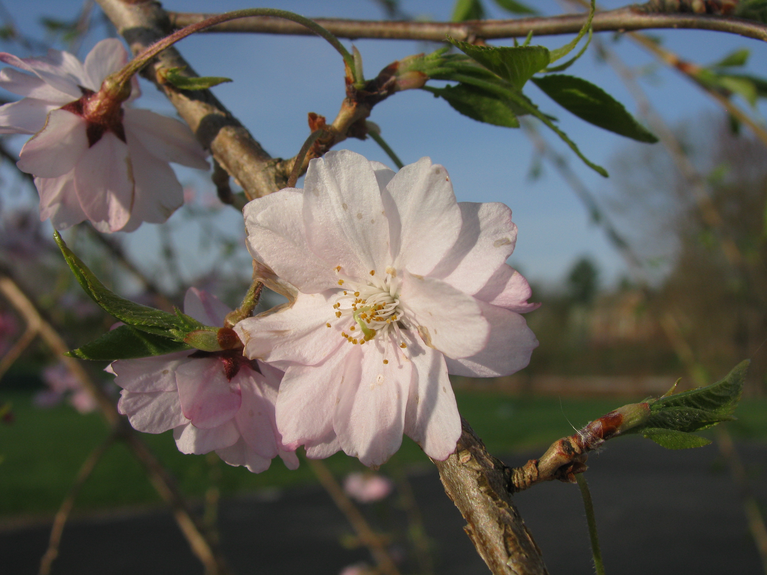 Blossom on Prunus subhirtella en Cultivar 'Pendula', common name - Weeping Higan Cherry.